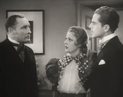 Left to right: Lionel Atwill, Irene Dunne, and Phillips Holmes in The Secret of Madame Blanche (1933) - trailer (cropped screenshot)